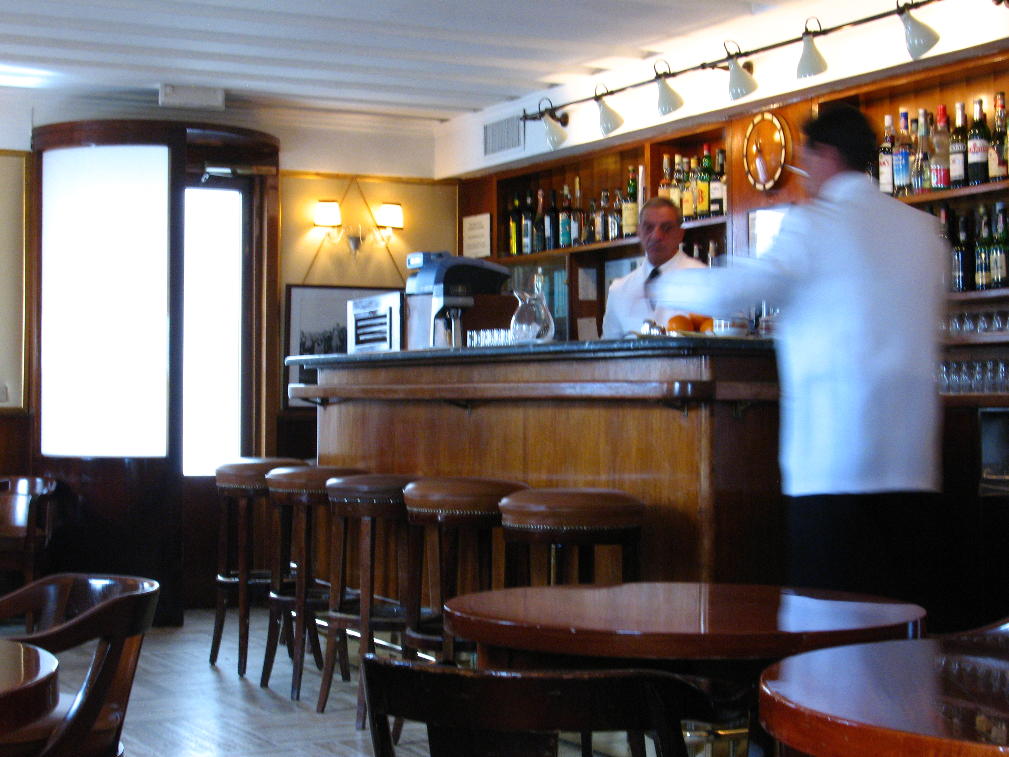 Italy - Venice, Harry's Bar, San Marco